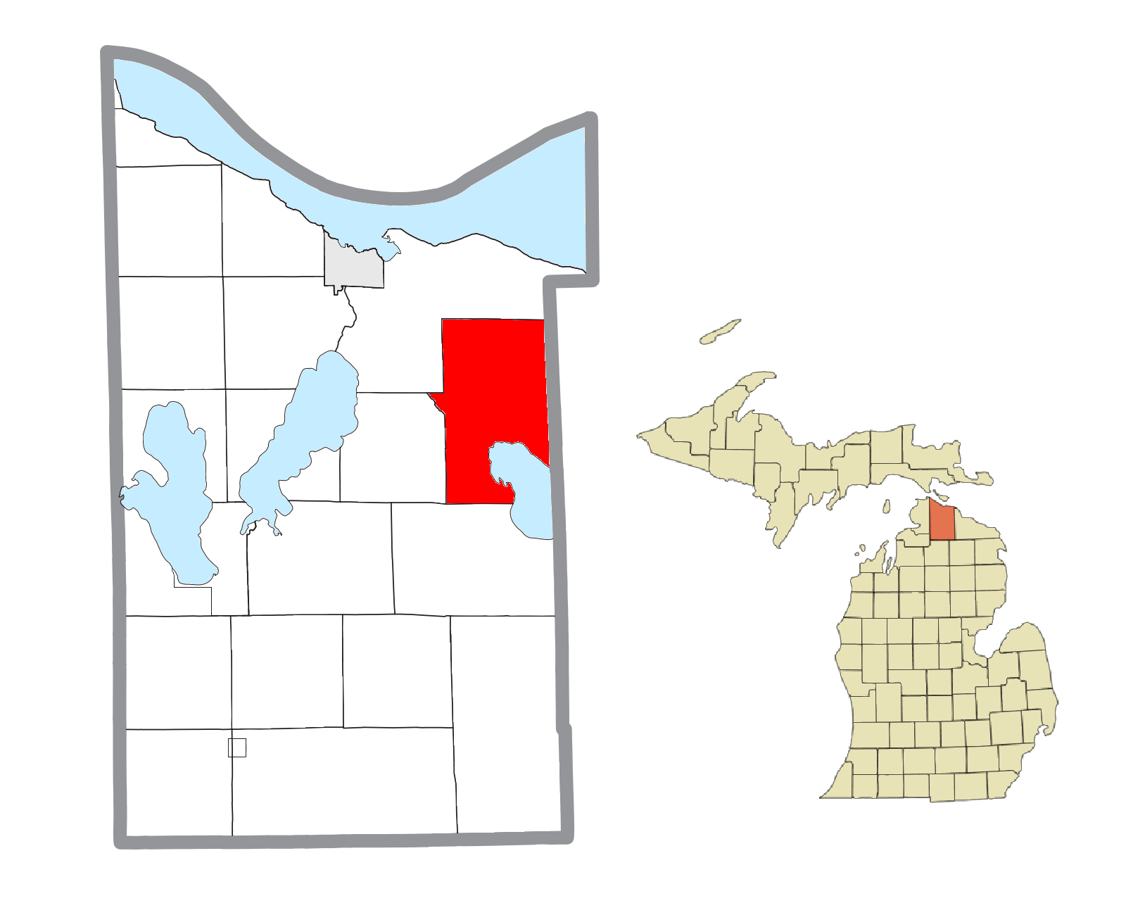 Grant Township, MI